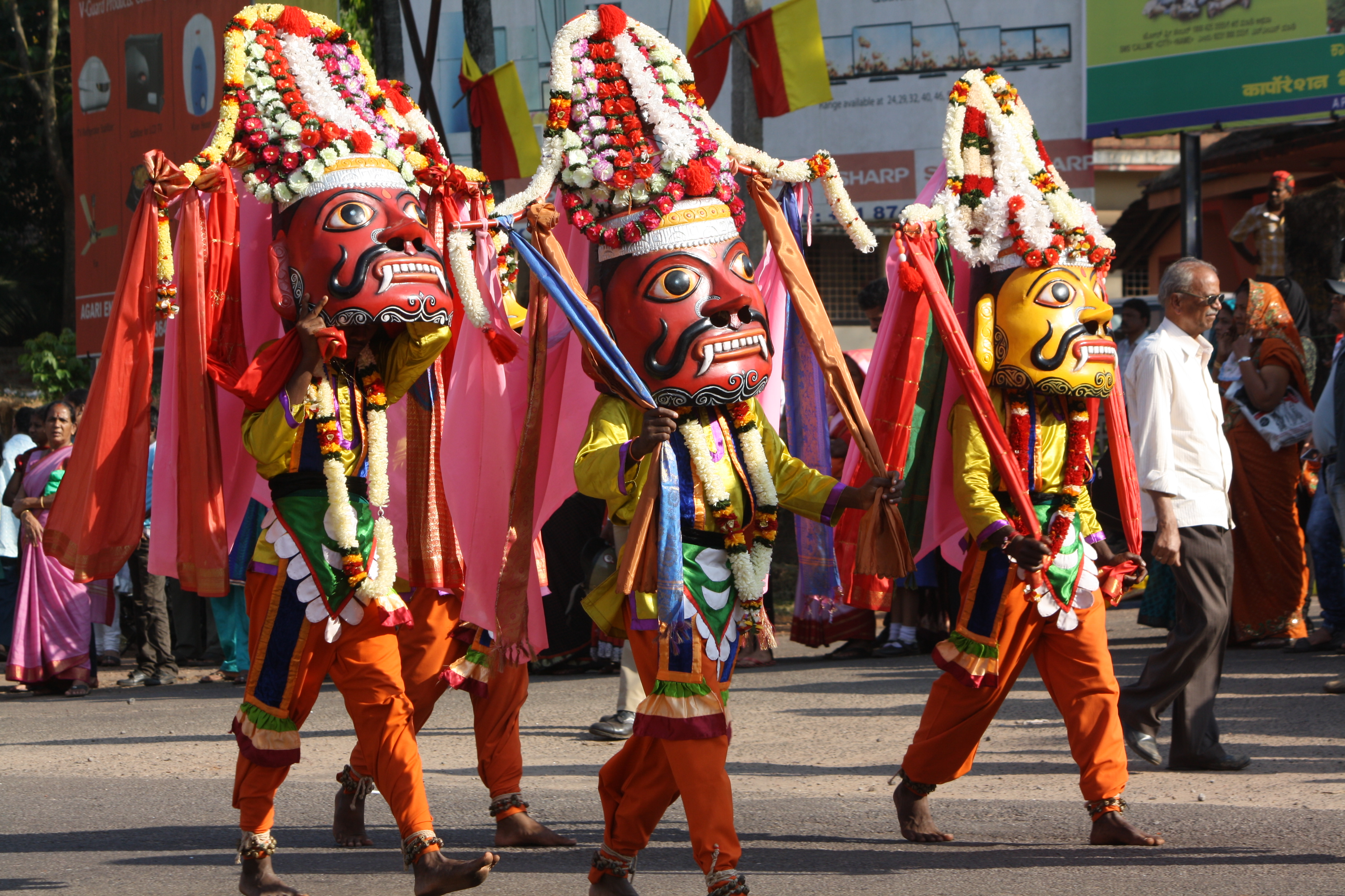 Somana Kunitha, a kind of folk performance from Karnataka, India ಕನ್ನಡ: ಕರ್ನಾಟಕದ ಜಾನಪದ ಕಲೆ ಸೋಮನ ಕುಣಿತ